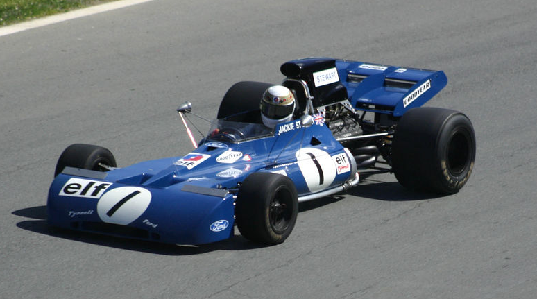 Jackie Stewart's Tyrrell 003 at a demonstration run during the 2004 Canadian Grand Prix.